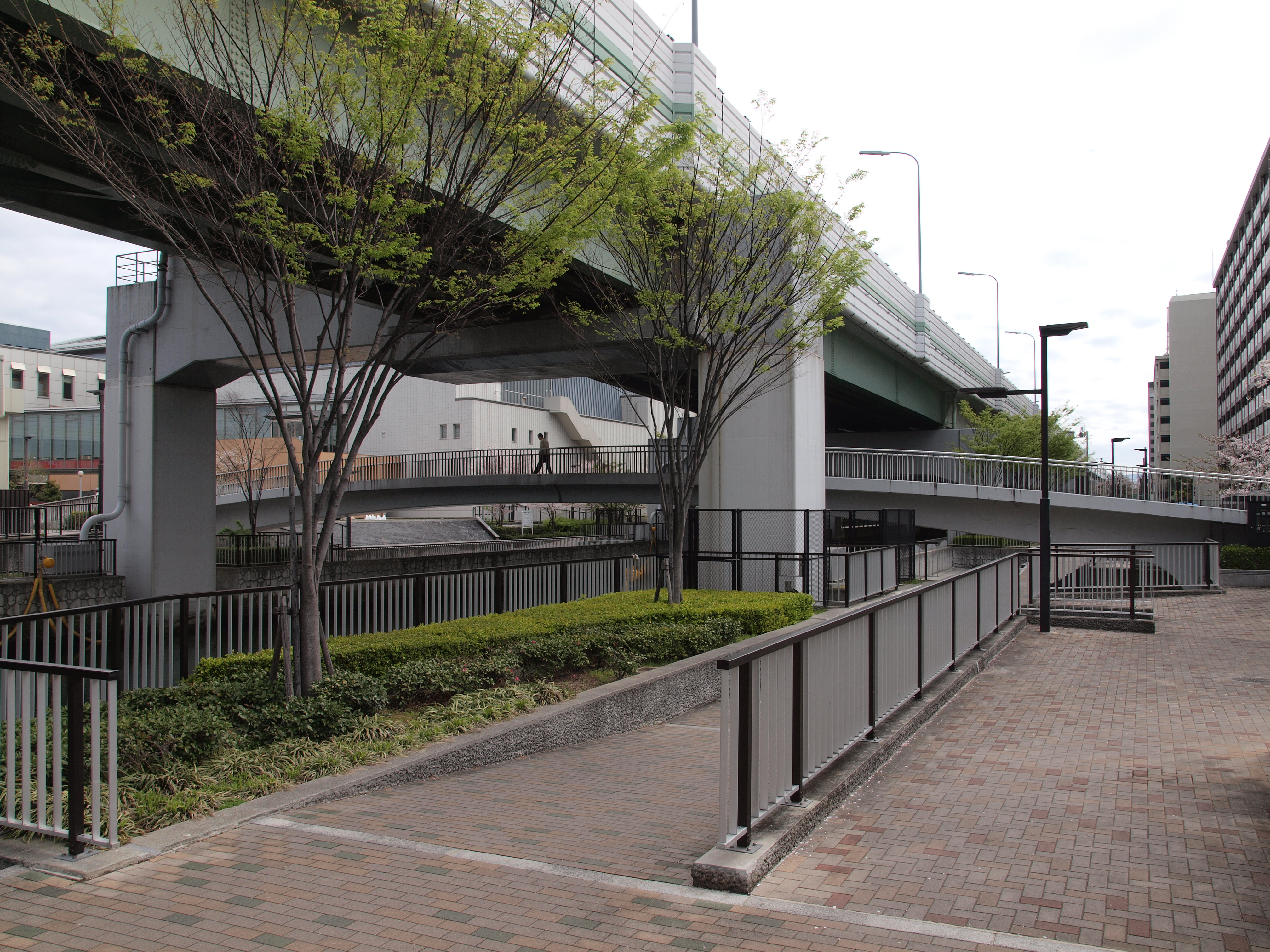 Asahieno-bashi (Bridge), Asahi-ku, Osaka